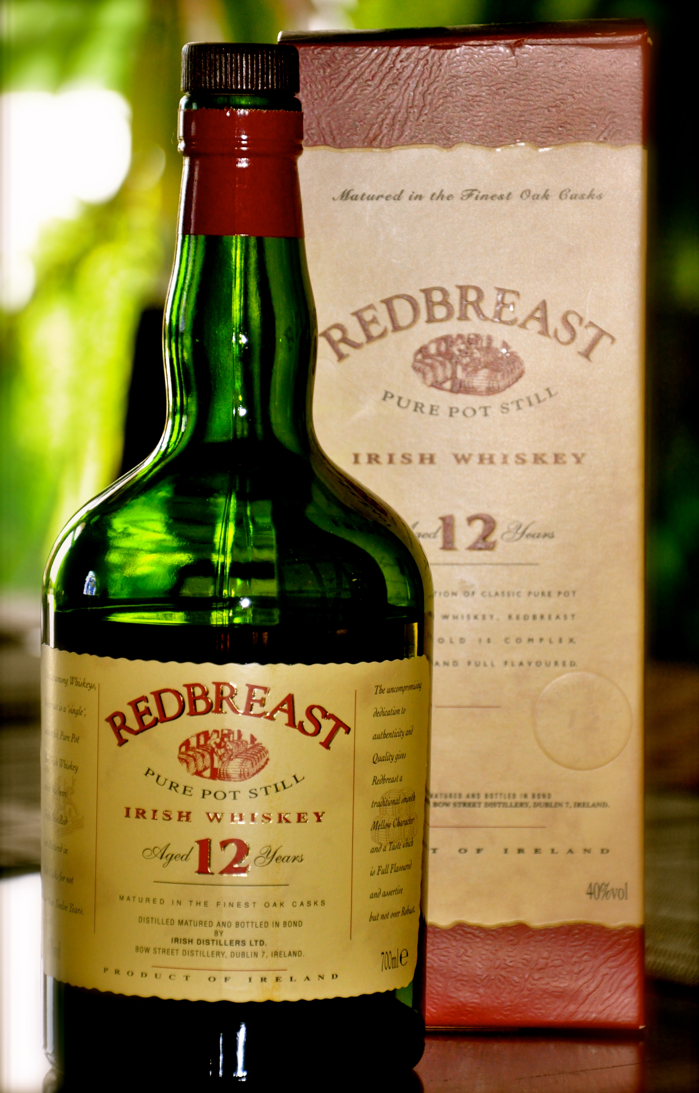 Bottle of Redbreast 12 years Wiskey